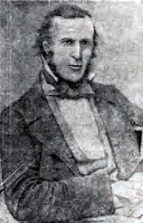 Photo portrait of British artist Lefevre James Cranstone